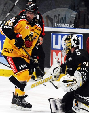 Cropped photo of ice hockey player Niklas Olausson of Luleå HF.